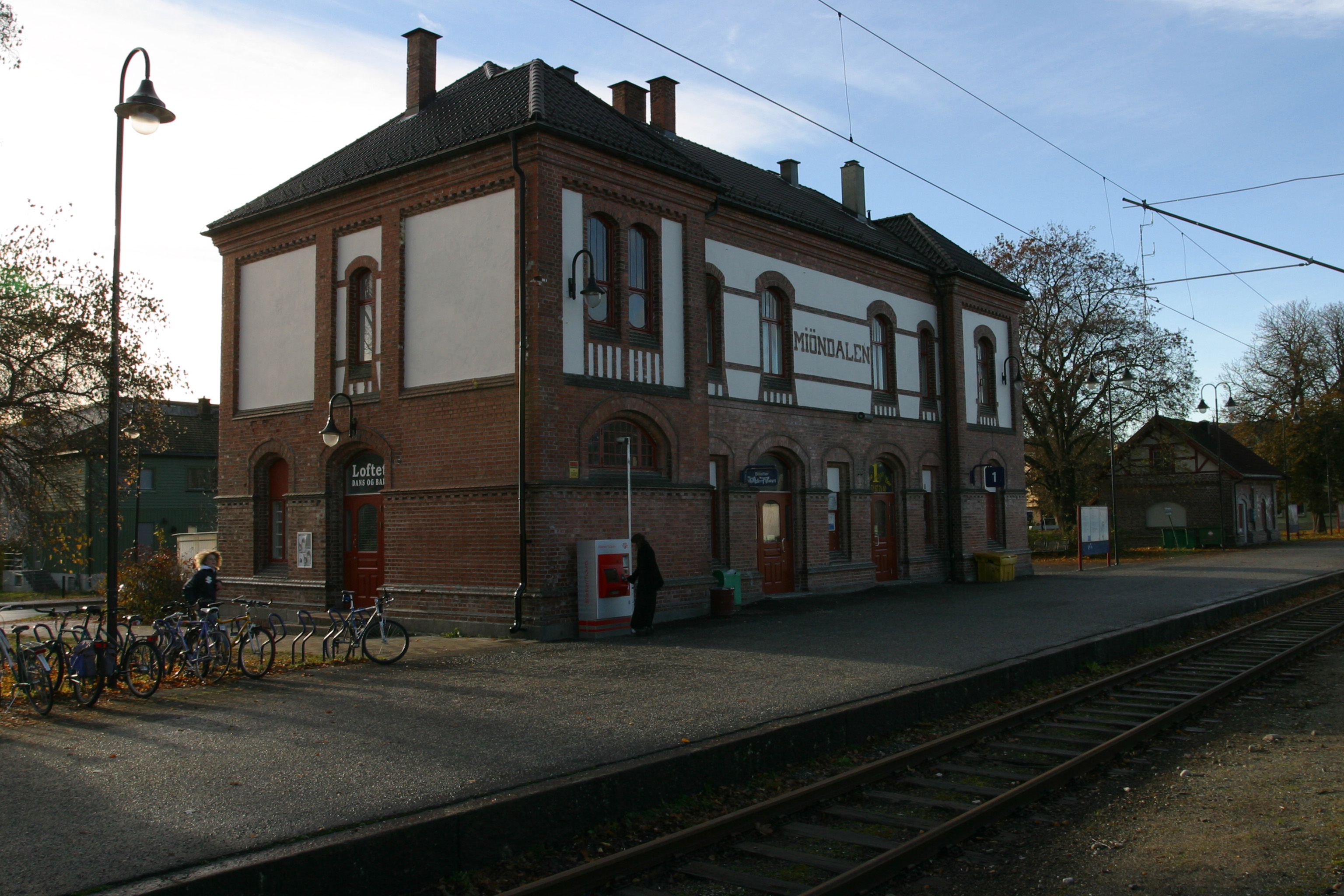 Picture of Mjøndalen Railway Station (Norway)